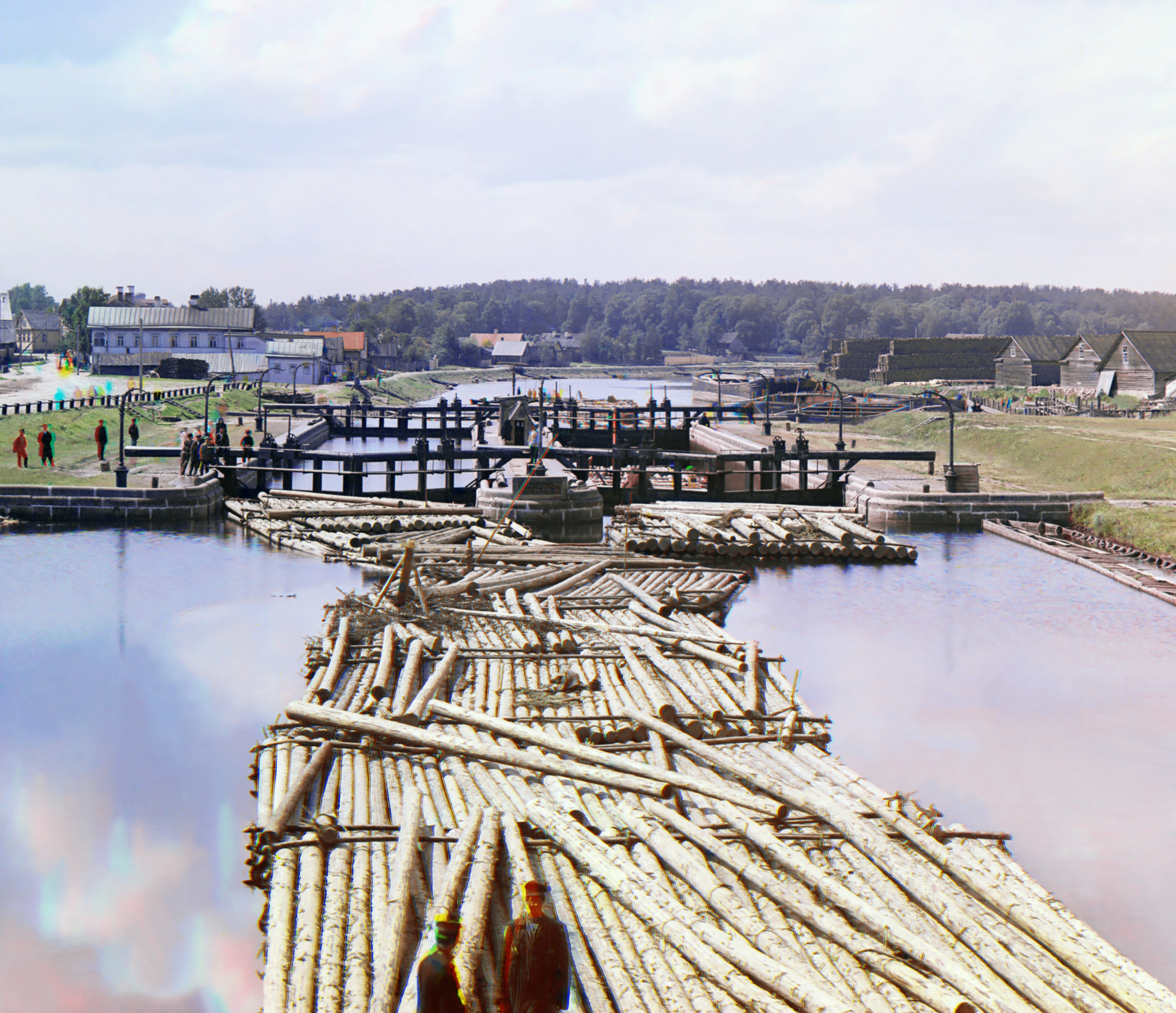 Original Description: Rafts on the Peter the Great Canal. City of Shlisselburg. [Russian Empire].